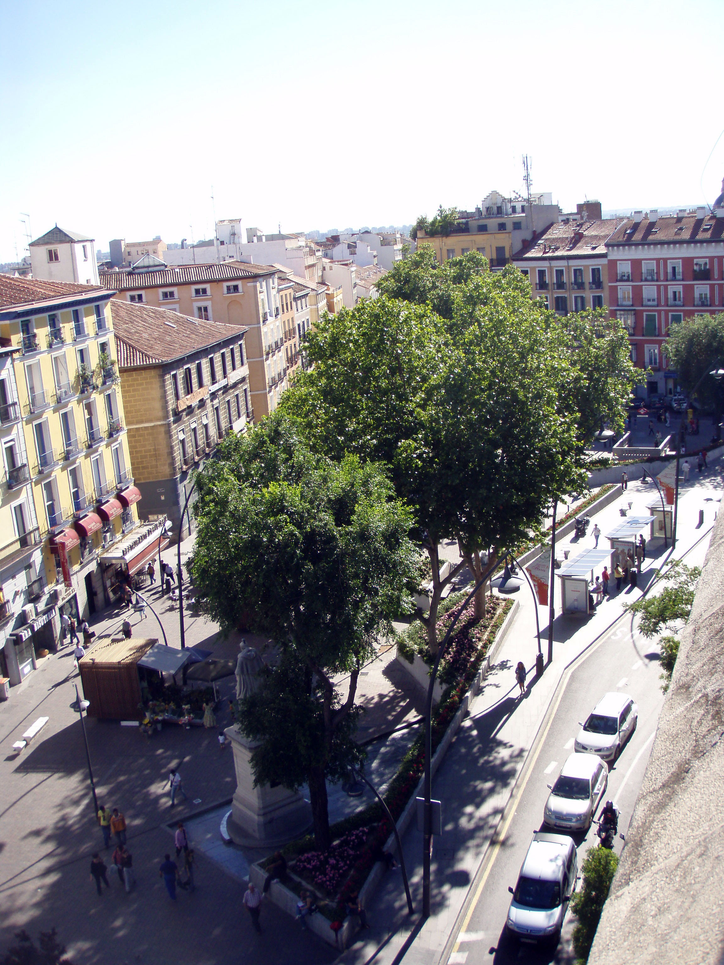 View of Plaza de Tirso de Molina (square) in Madrid (Spain).